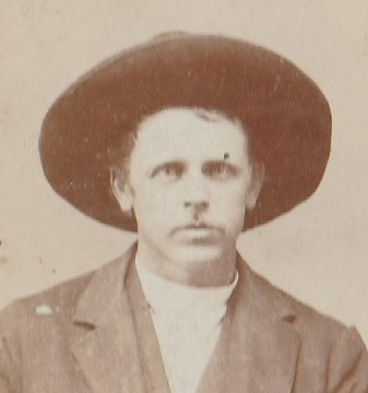 Photo of Dave Rudabaugh